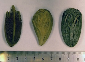 A photo of three Latania (palm) pyrenes, one from each species (left, L. vershaffeltii; middle, L. lontaroides; right, L. loddigesii)